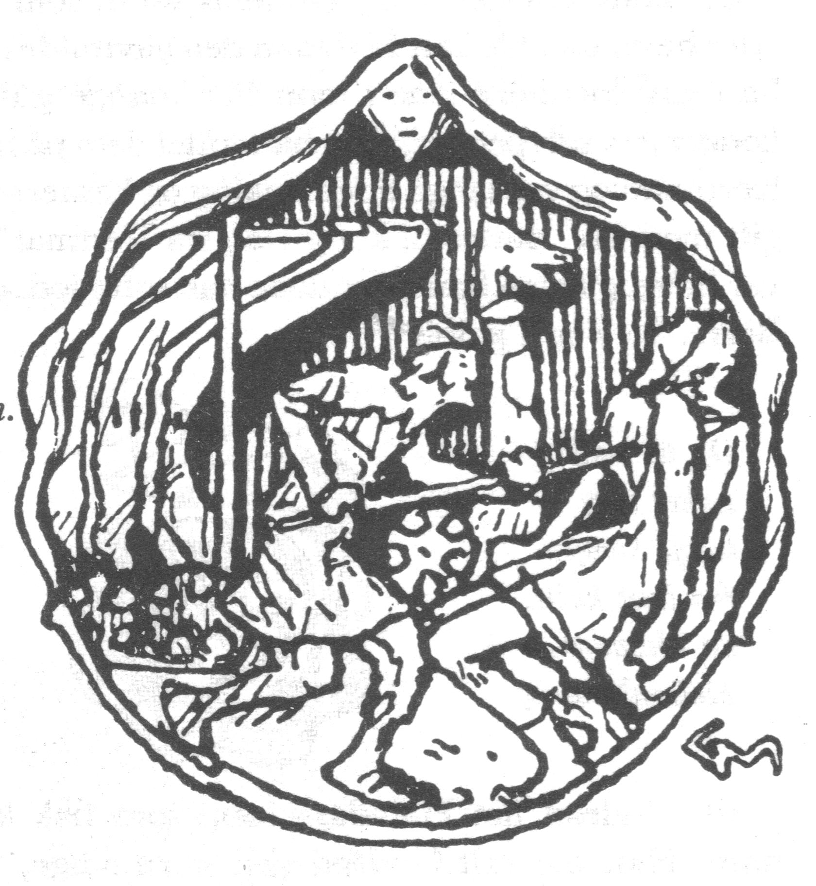 Gerhard Munthe: Illustration for Ynglingesaga. Snorre 1899-edition. 27